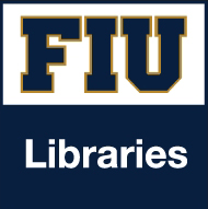 FIU Library Logo. Low resolution image